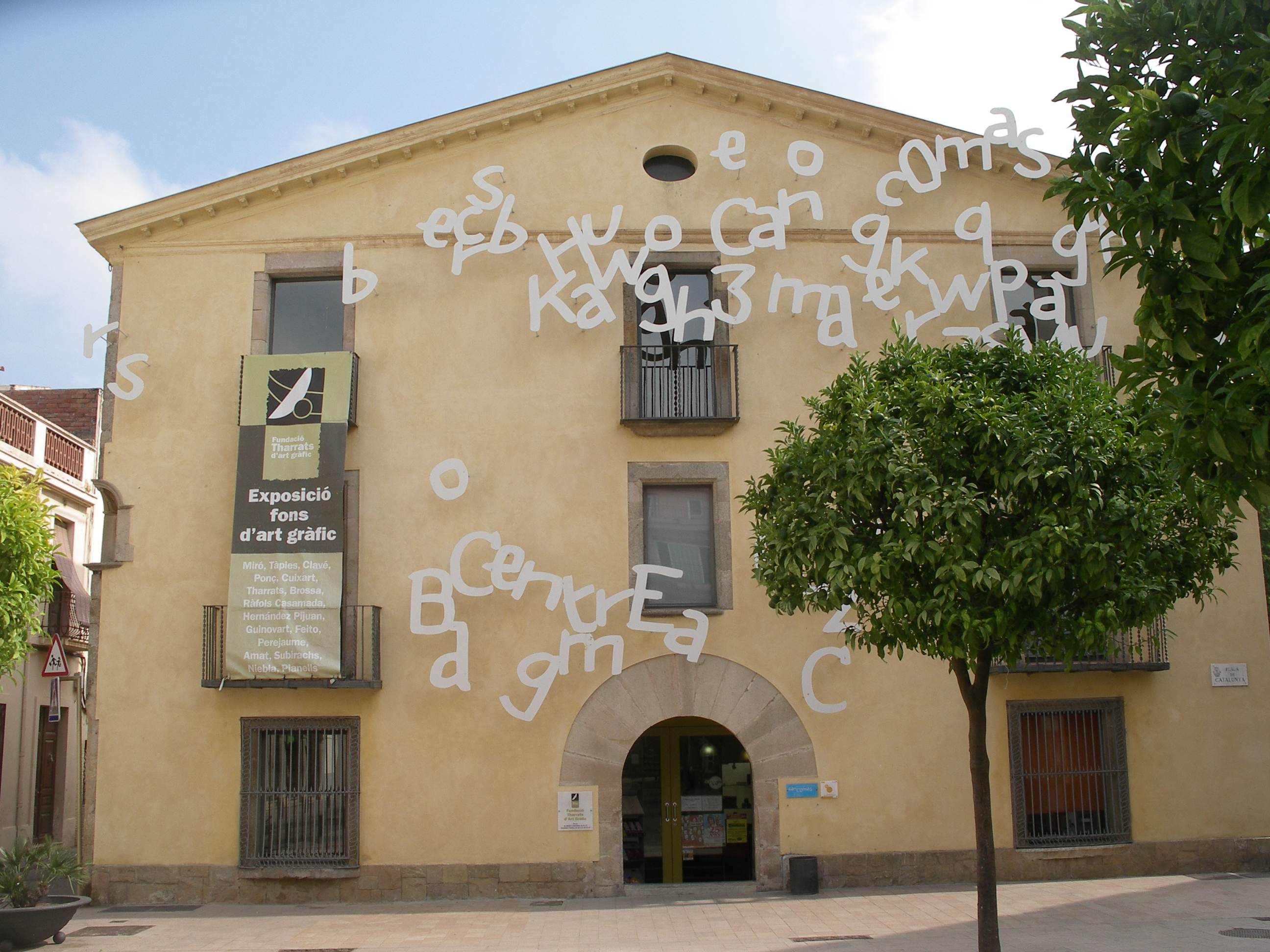 Fundació Tharrats, at Pineda de Mar, art collection in an old "masia" in the village.